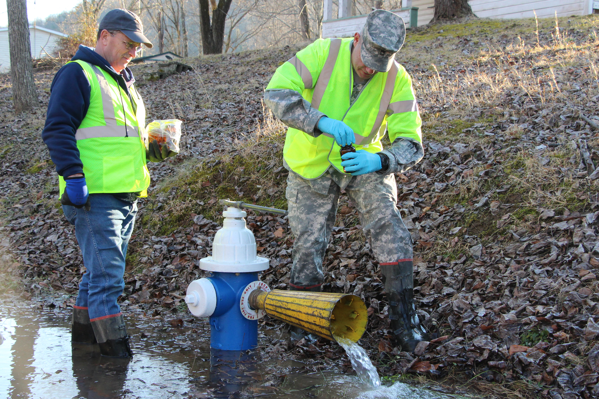 Sgt. 1st Class Scott Wiseman of the Virginia National Guard's Fort Pickett-based 34th Weapons of Mass Destruction Civil Support Team collects a water sample Jan. 19, 2014, near Charleston, W.Va., after Jeff Miller, a crew leader with West Virginia American Water, opened the fire hydrant. Fourteen Virginia Guard soldiers and airmen from the 34th CST are assisting the West Virginia National Guard in the wake of a chemical leak that contaminated the water supply for thousands of residents. (Photo by Cotton Puryear, Virginia National Guard Public Affairs)